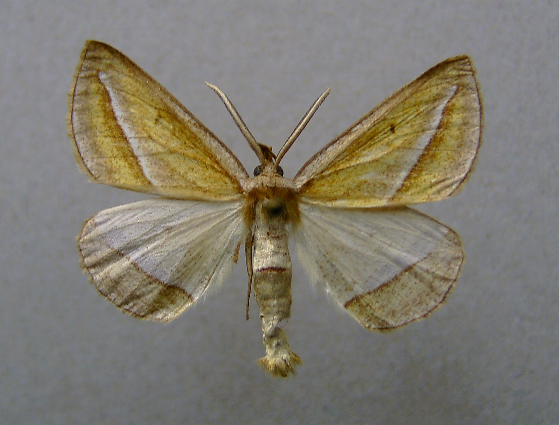 Chariaspilates formosaria, male, Anklam, Germany